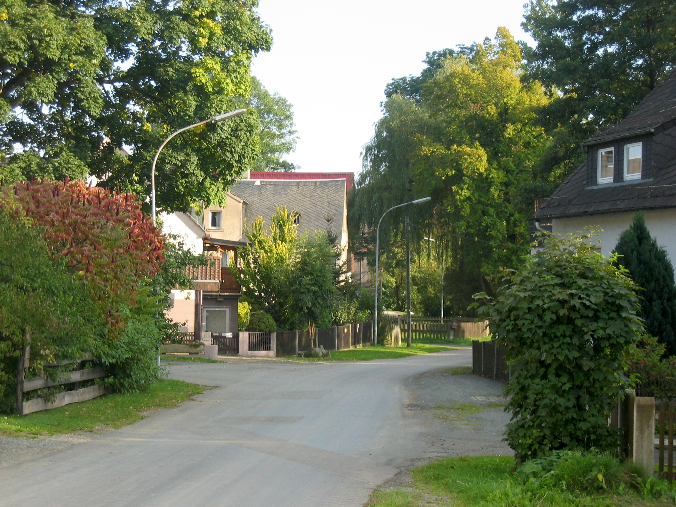 Street of Schlegel